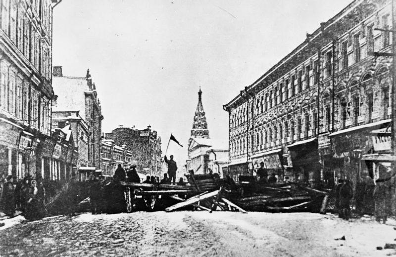 December 1905, Moscow, Arbat Street. Barricades manned by workers of Schmidt factory. Taken at bldg. no. 12 (on the right), camera facing west. Original (incorrect) description by the IWM: "A barricade erected by revolutionaries in St Petersburg during the 1905 uprising. On 22 January, a procession of Russian workers and families was fired upon by troops guarding the Winter Palace as it was carrying a petition to the Tsar."